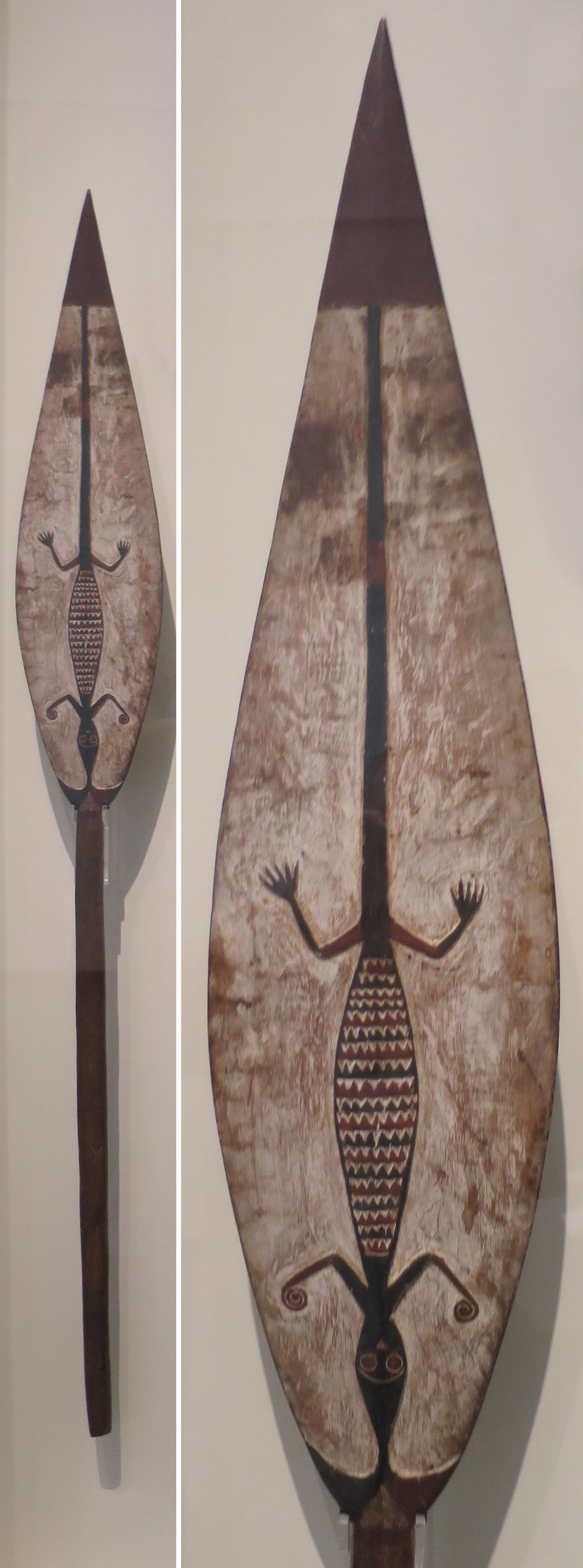 Canoe paddle (hose), Buka or north Bougainville Island, Solomon Islands, late 19th – early 20th century, carved wood and pigments, Honolulu Museum of Art, accession 4192